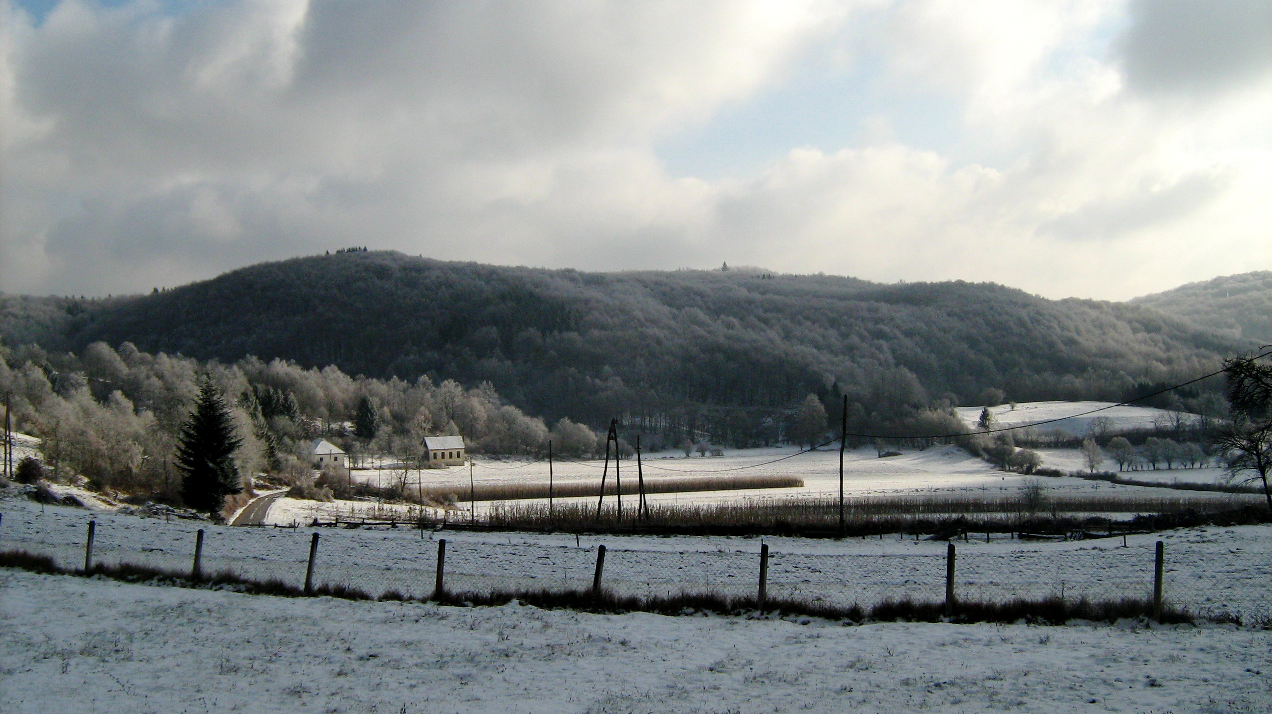 Mrzlo polje field in winter time, Zumberak, Croatia